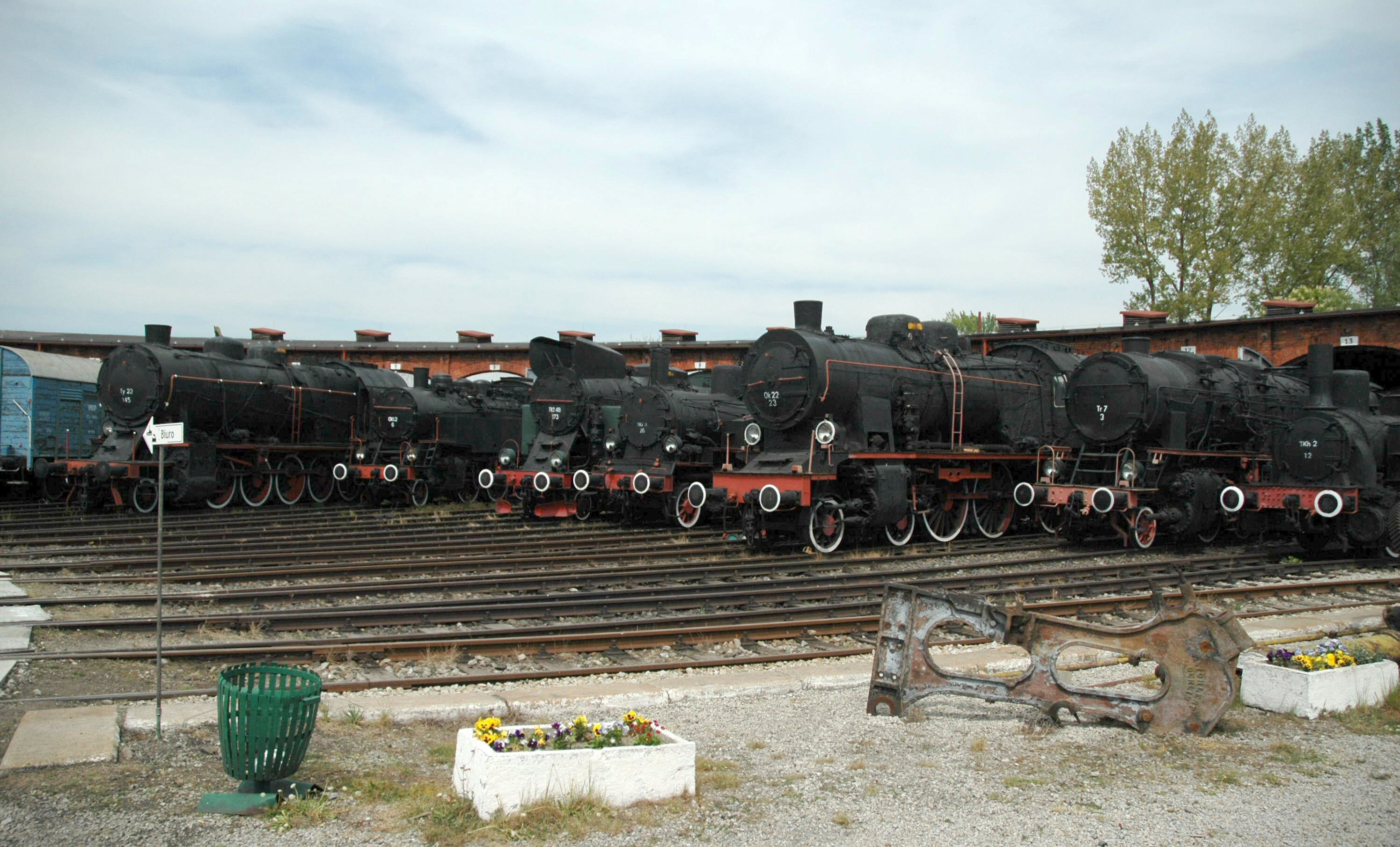 Poland, Jaworzyna Slaska - Museum of Industry and Railway in Lower Silesia.